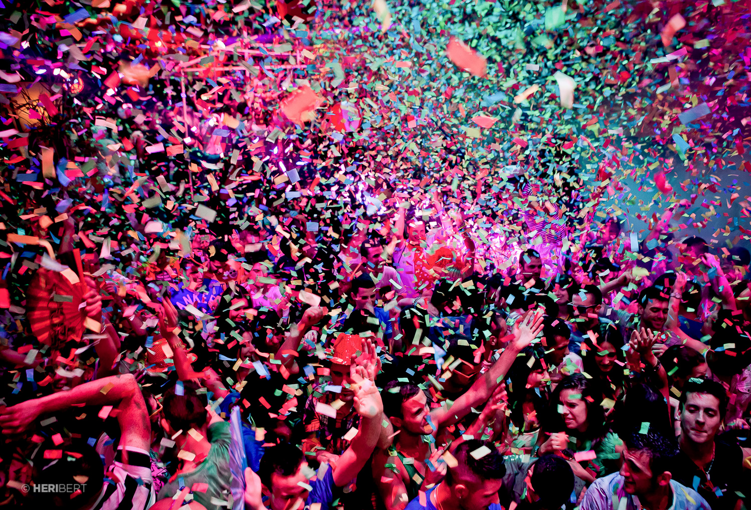 Fiesta de elrow en el club Florida 135, The Singer Morning Festival 29 de junio de 2013